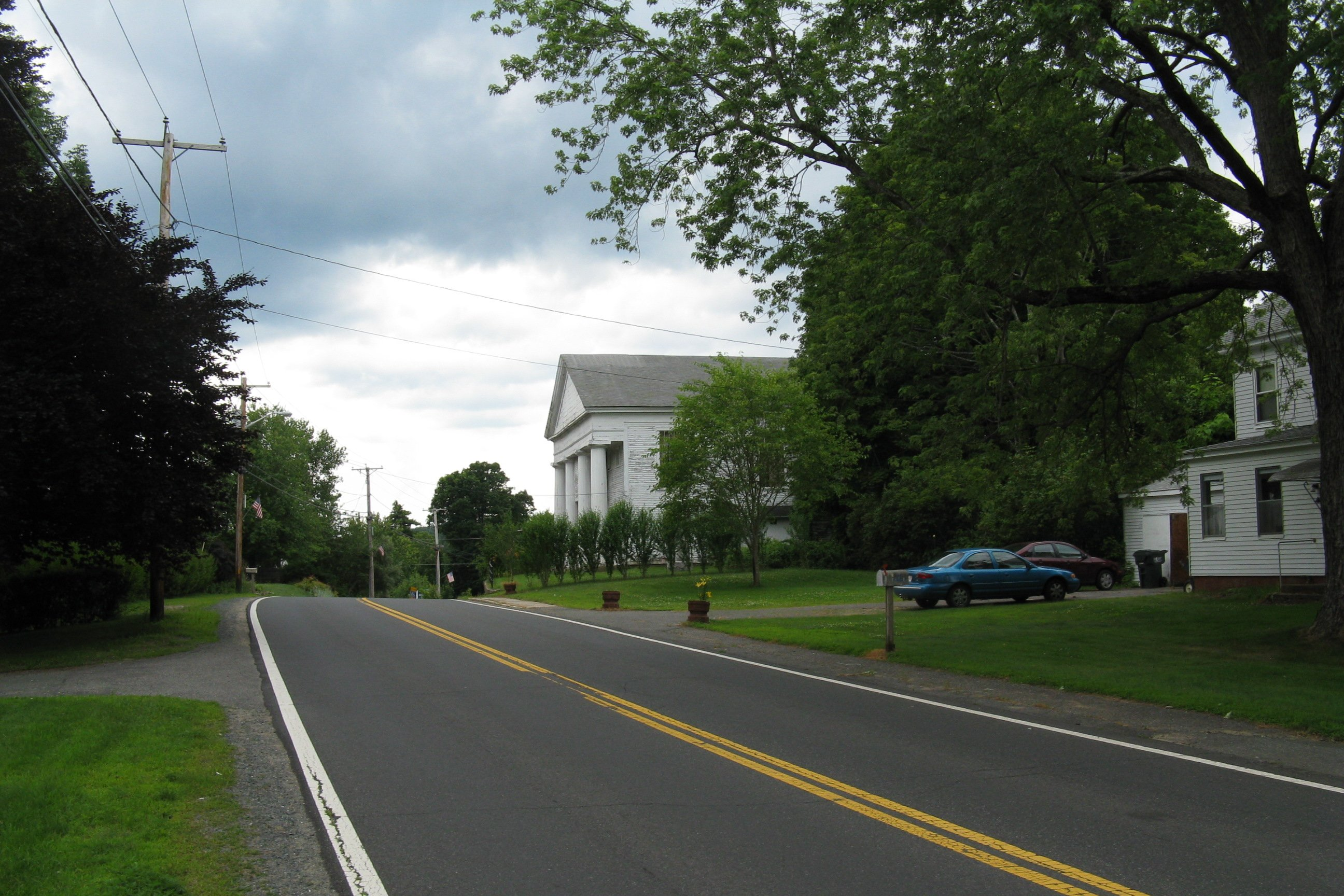 Southbound MA Route 19, Wales Massachusetts - old Wales Town Hall on the right